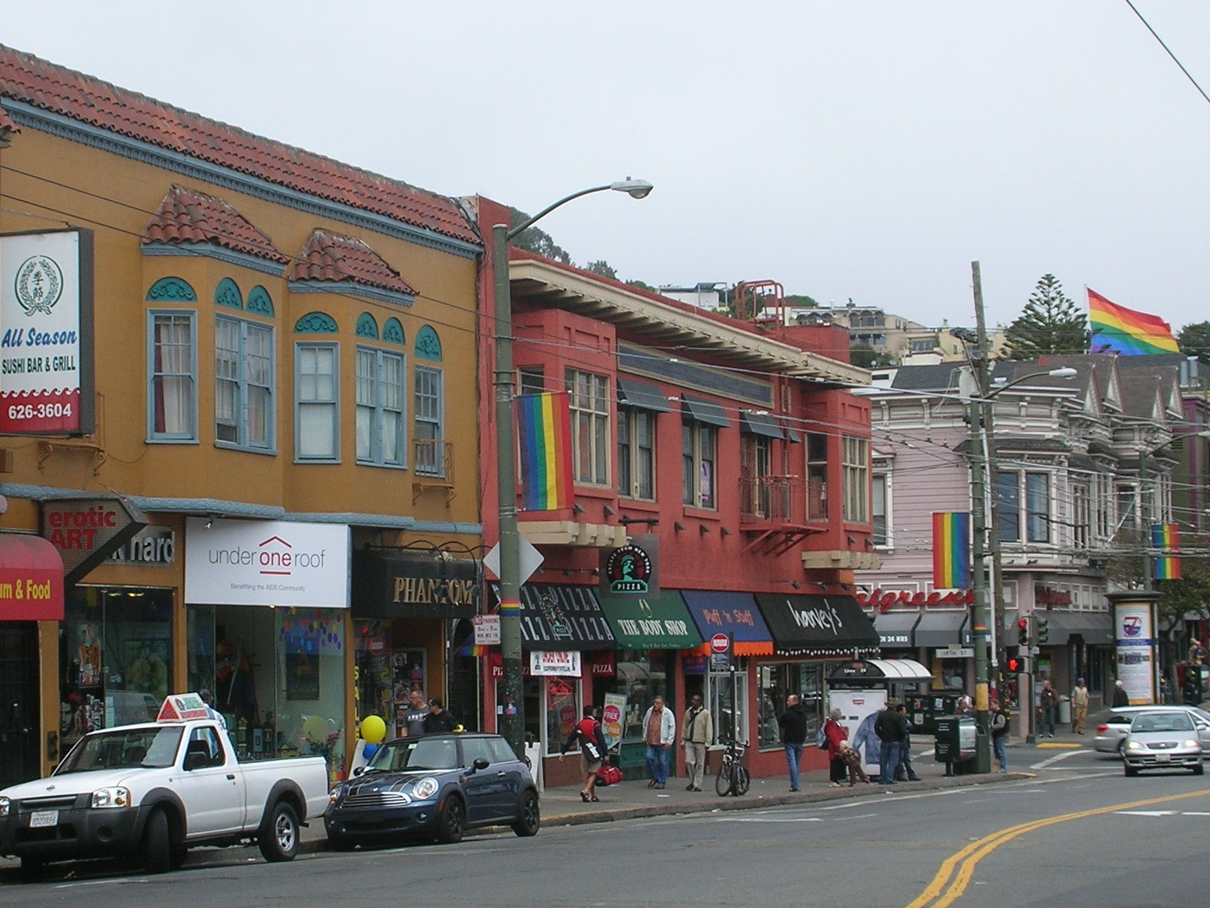 Castro Street in San Francisco